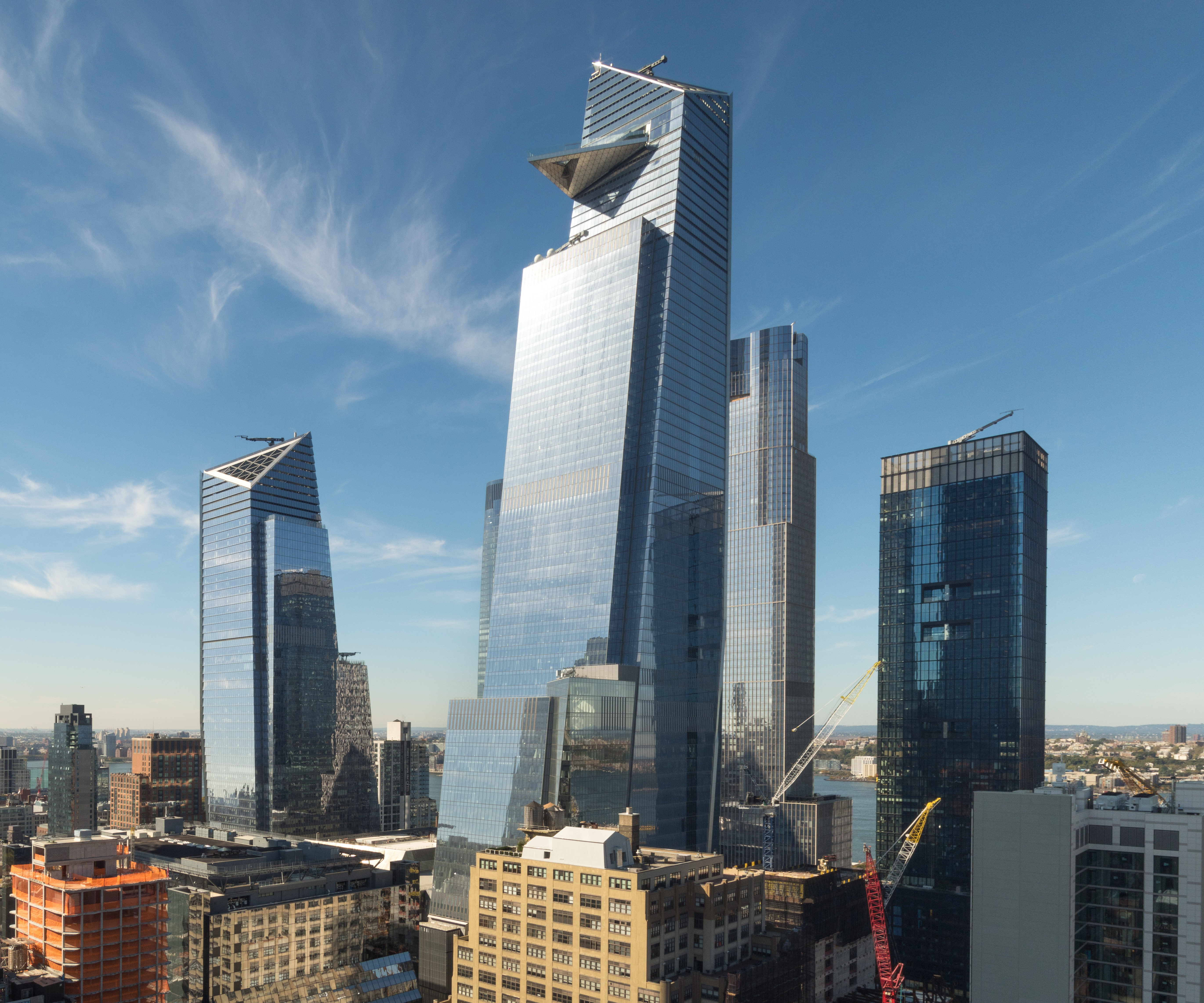 Hudson Yards viewed from the top of Hudson Commons